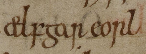 The name of Ælfgar Leofricson, Earl of Mercia (died 1062?) as it appears on folio 161v of British Library Cotton MS Tiberius B I (the "C" version of the Anglo-Saxon Chronicle): "Ælfgar eorl".